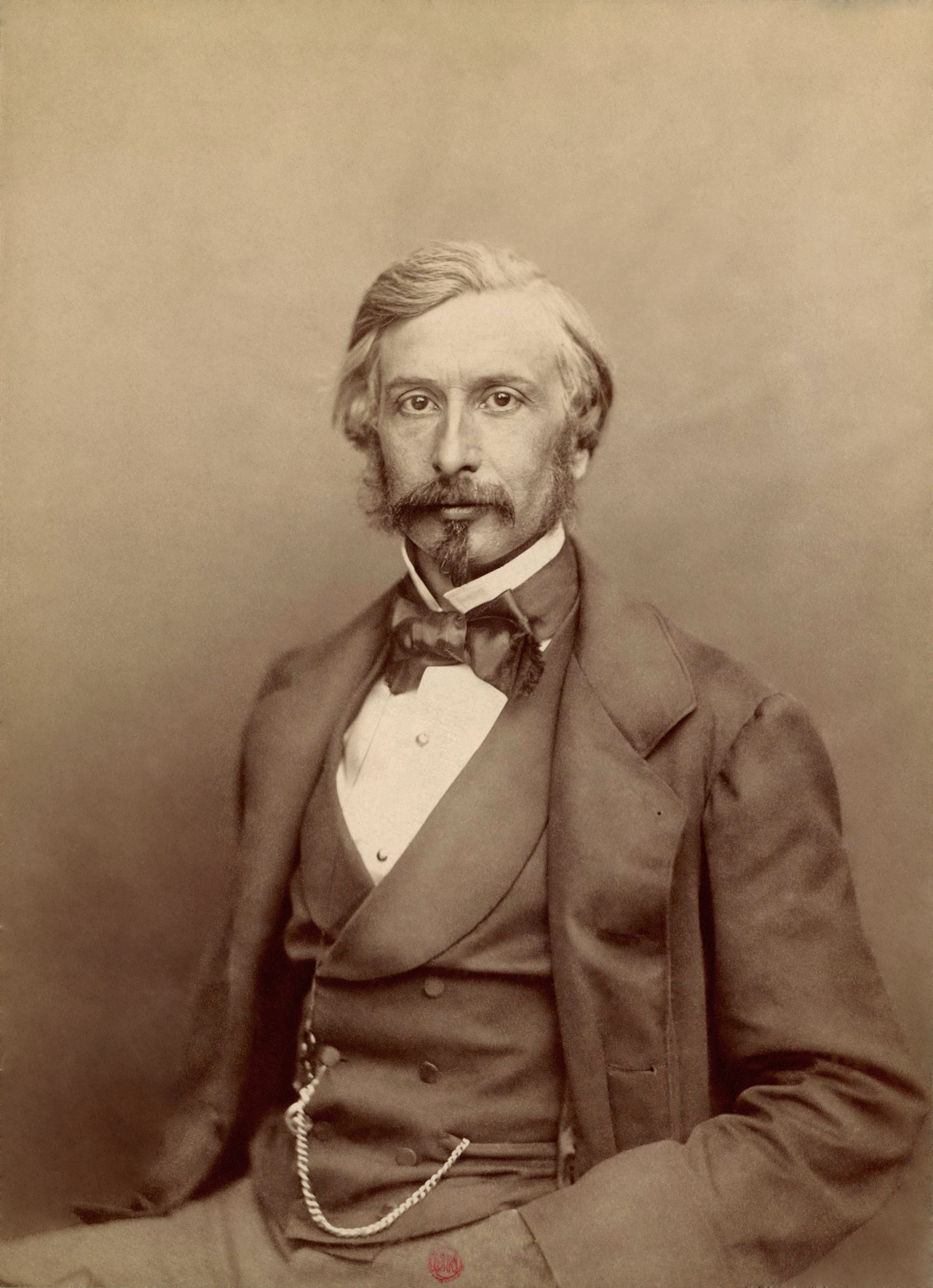 Mario Uchard (1824 - 1893), french writer and playwright.